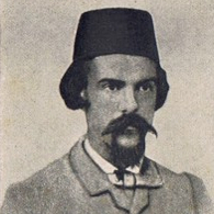 Georg Schweinfurth in 1864